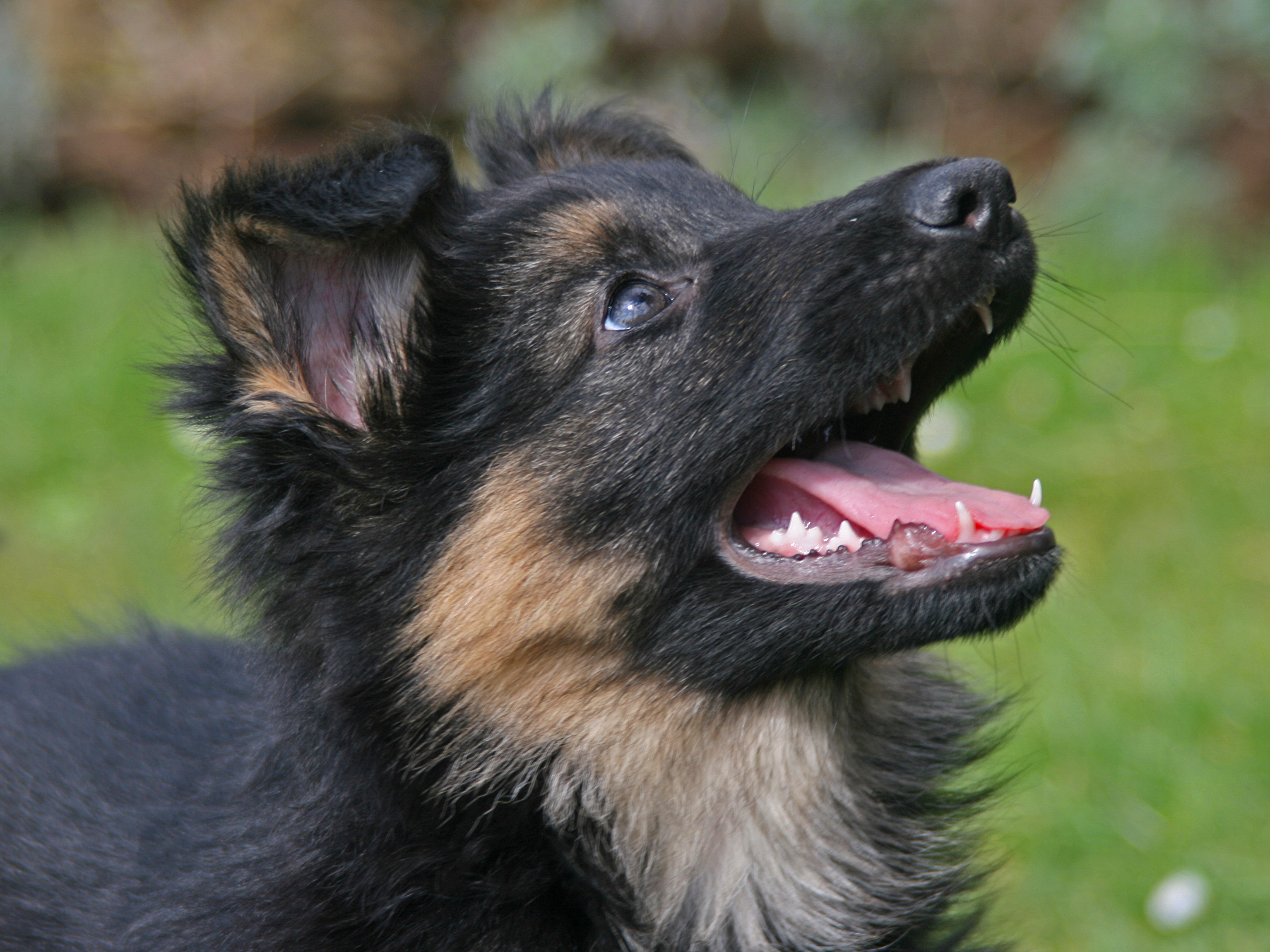 German Shepherd Dog puppy